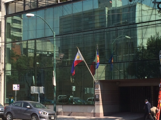 Former Embassy of the Philippines in Mexico City